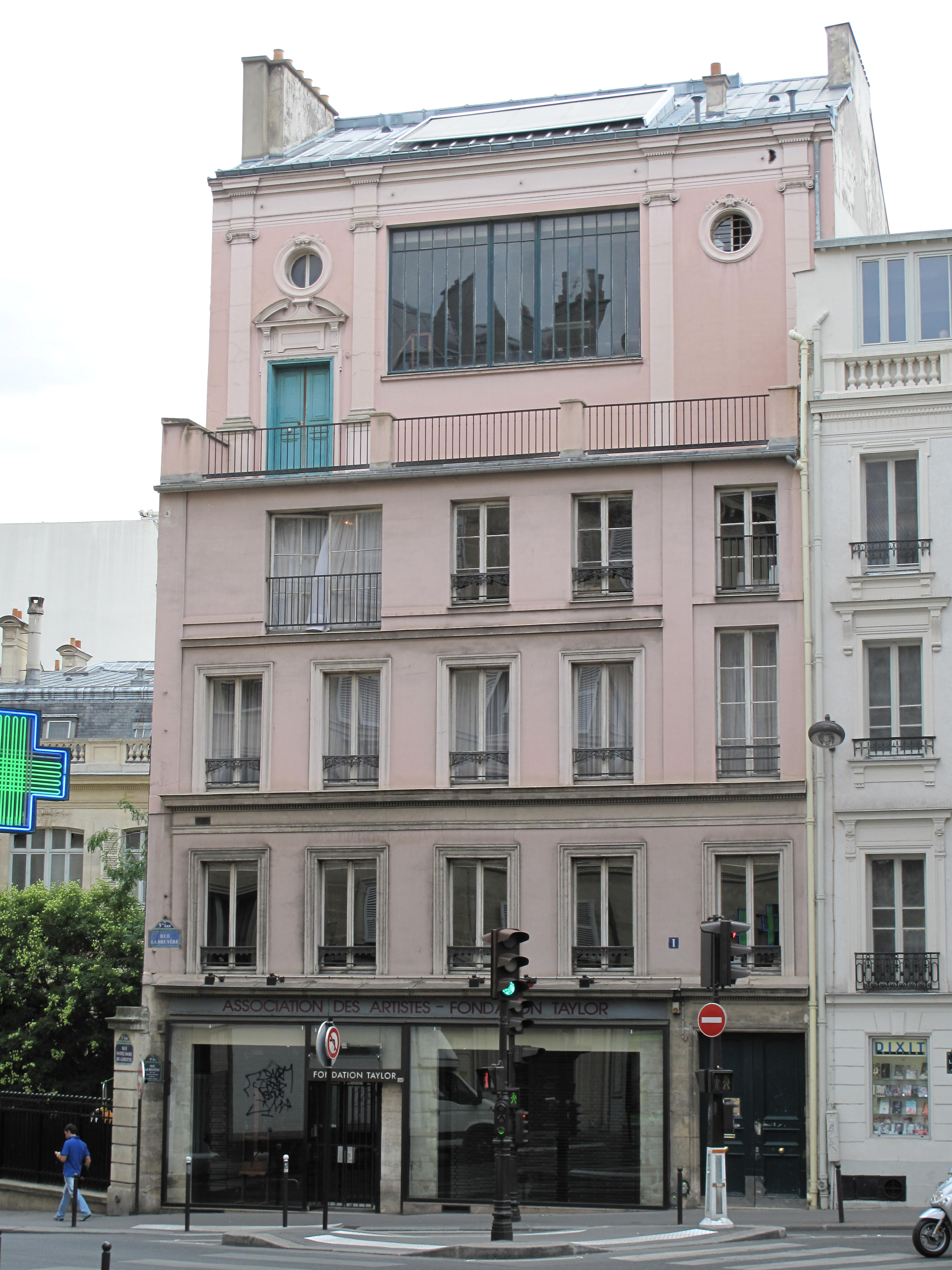 House of the Taylor (1789-1889) foundation with loft for artist on the last floor : 1 rue La Bruyère, Paris 9th arr.